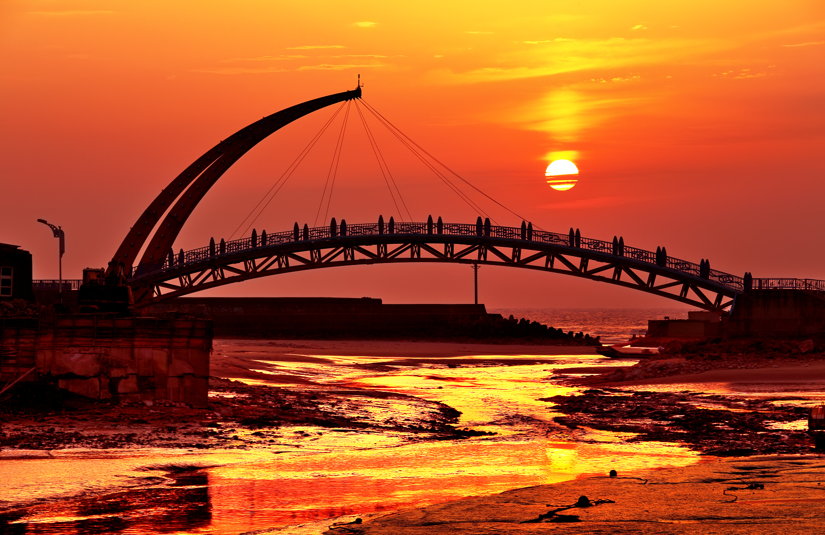 太陽的戲碼 The essentials of sunset